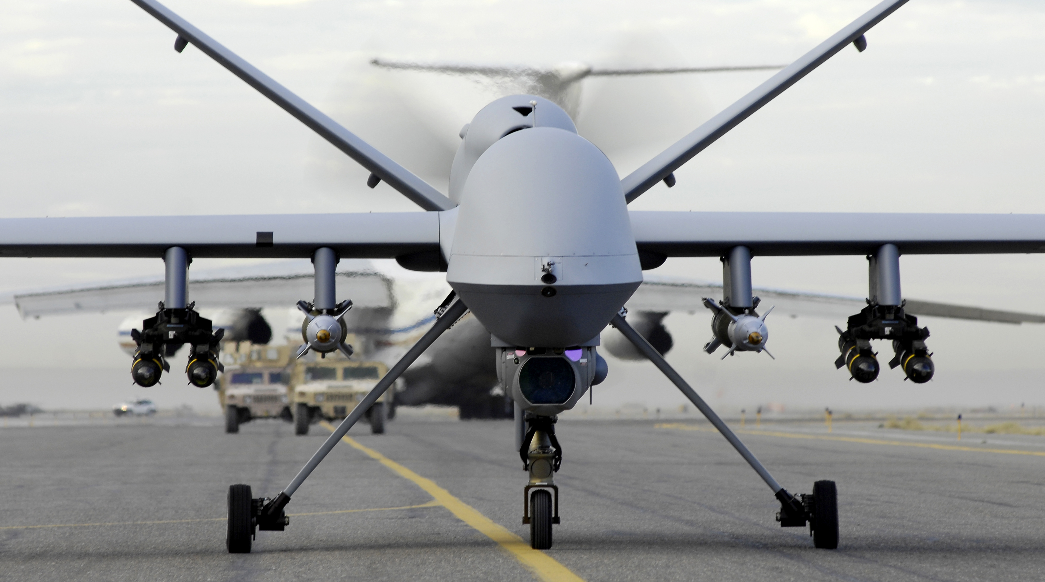 MQ-9 Reaper taxis down an Afghan runway Reaper drops first precision-guided bomb, protects ground forces A fully armed MQ-9 Reaper taxis down an Afghanistan runway Nov. 4. The Reaper has flown 49 combat sorties since it first began operating in Afghanistan Sept. 25. It completed its first combat strike Oct. 27, when it fired a Hellfire missile over Deh Rawod, Afghanistan. (U.S. Air Force photo/Staff Sgt. Brian Ferguson)